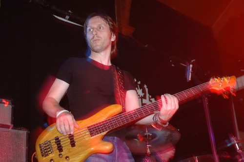 Licence details emailed to permisions (24.07.07) created by uploader/subject